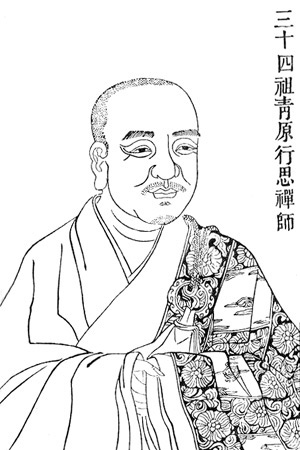 Qingyuan Xingsi (761-783), a Tang Dynasty Buddhist monk. Woodcut, Ching dynasty; caption:「三十四祖靑原行思禪師」